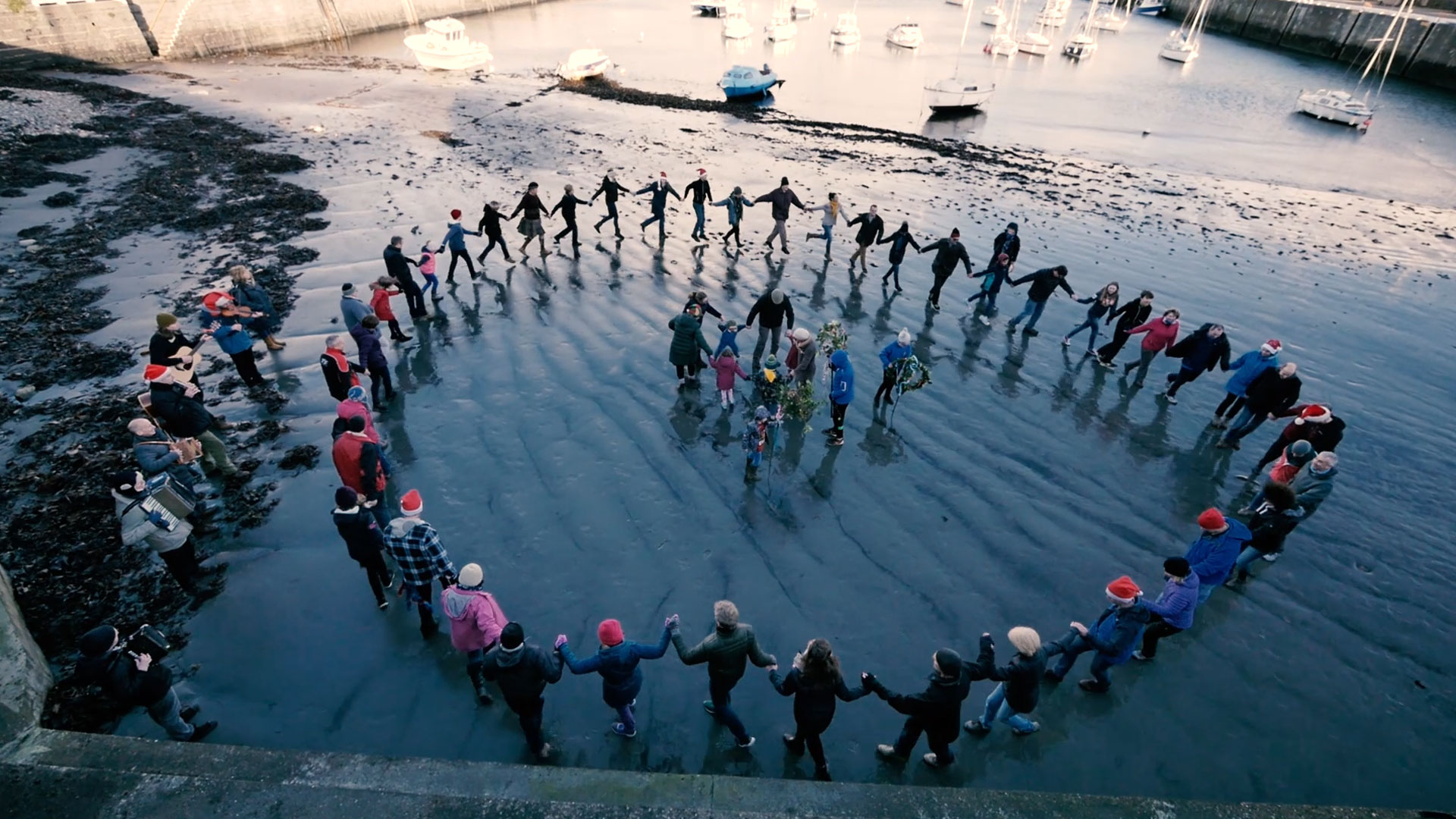 Hunt the Wren on the beach at Port St. Mary, 2016 Gaelg: Shelg yn Drean ayns Purt le Moirrey, 2016